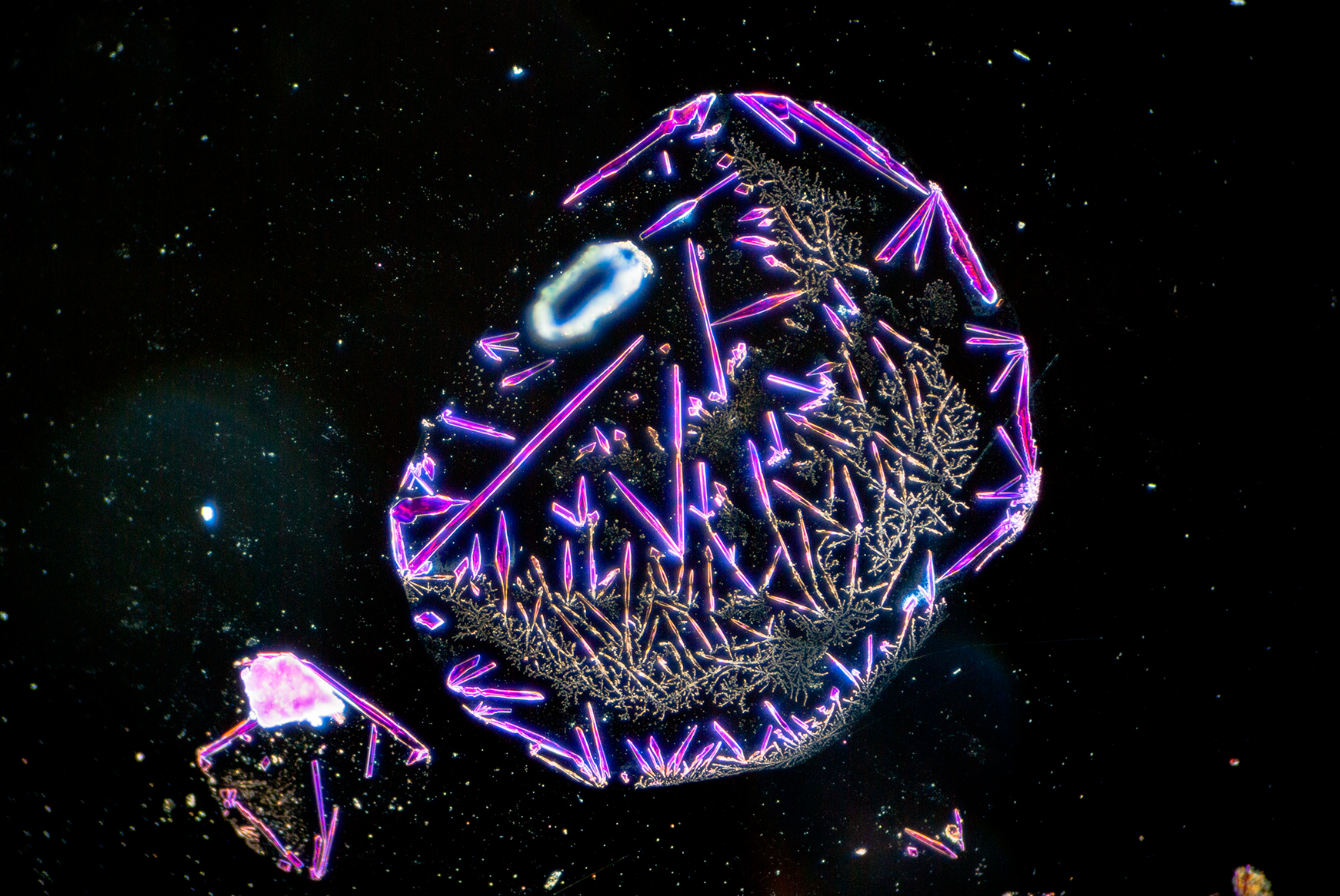 Potassium permanganate crystals darkfield